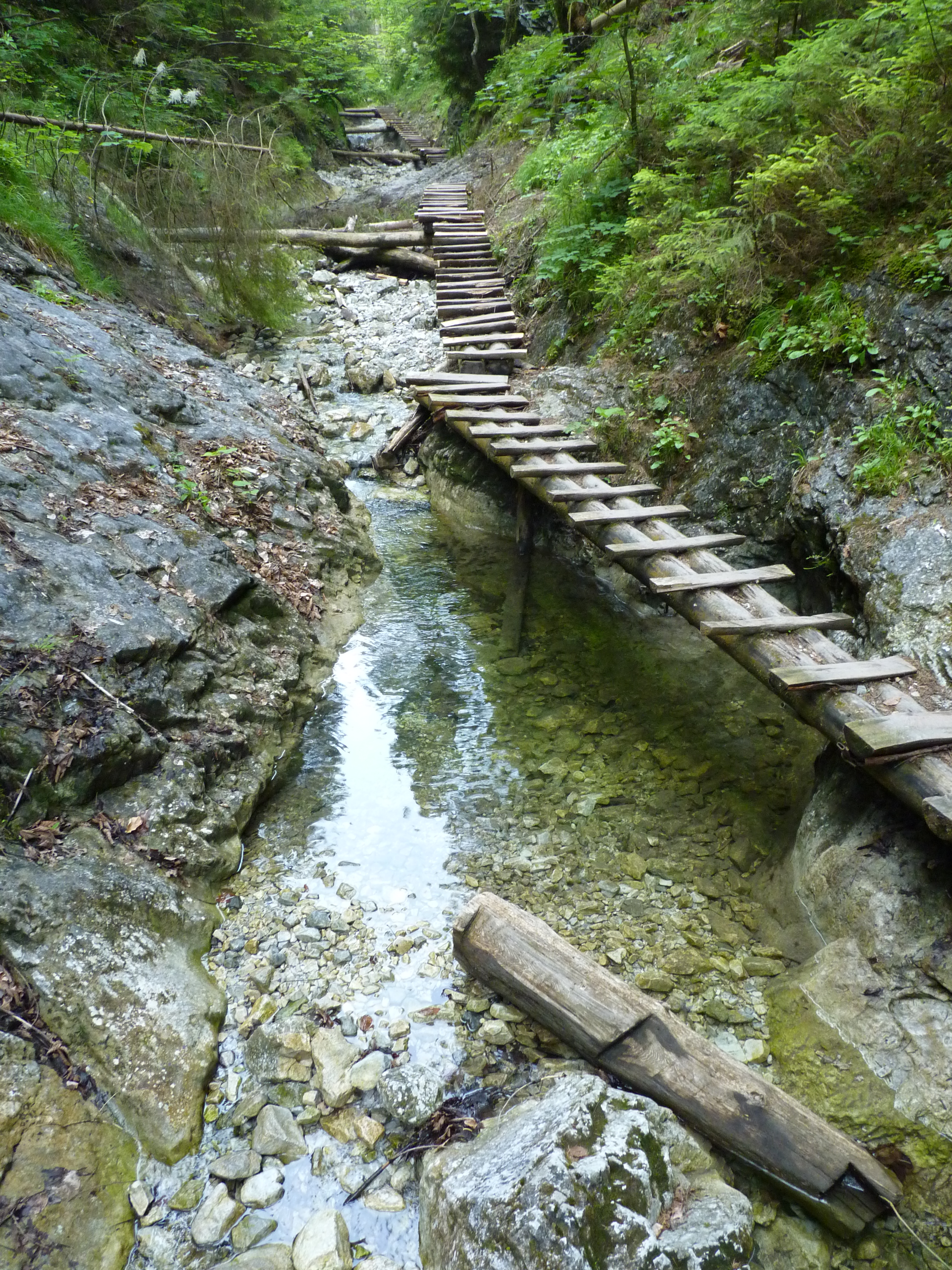 Cantilevered footbridge (log bridge) in Suchá Belá canyon, Suchá Belá National Nature Reserve, Slovak Paradise National Park, Slovakia.